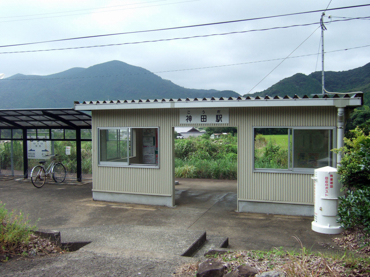 Kouda Station(Matsuura Railway Nishi-Kyushu Line)